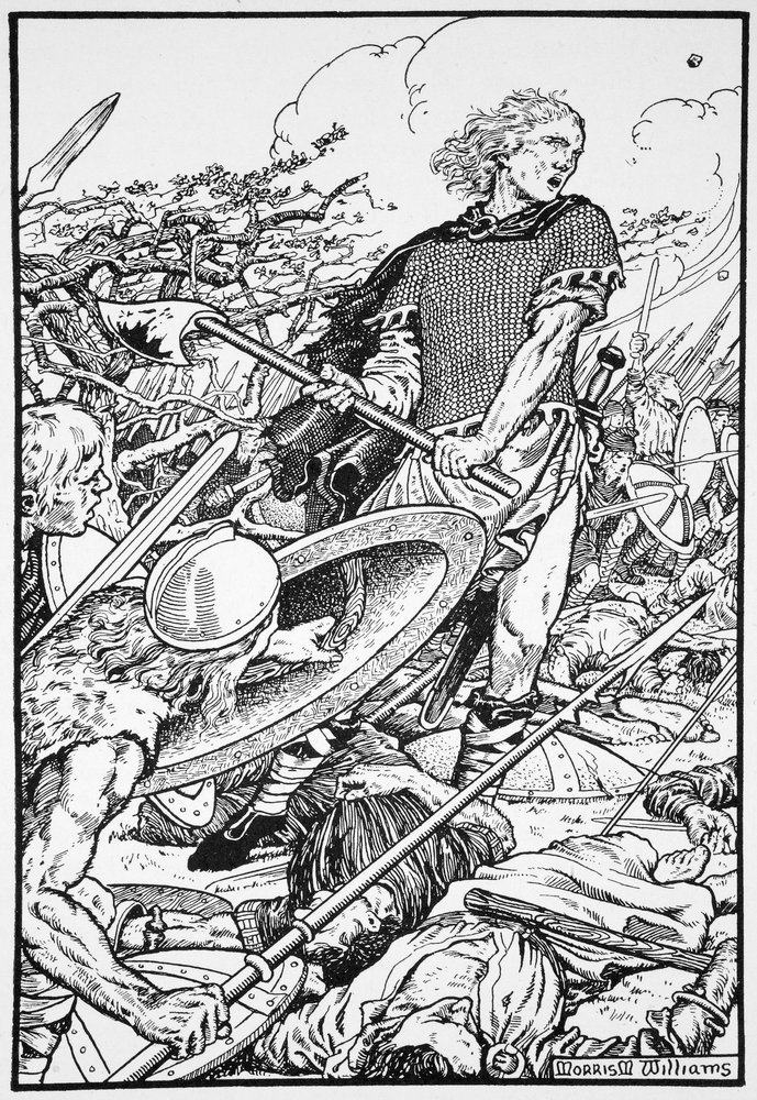 Alfred the Great at the Battle of Ashdown, 871 by Morris Meredith Williams (1913)